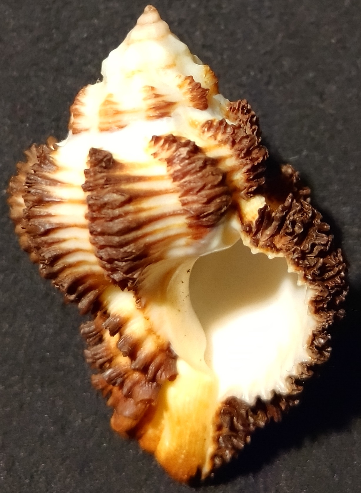 Hexaplex Stainforthi Front